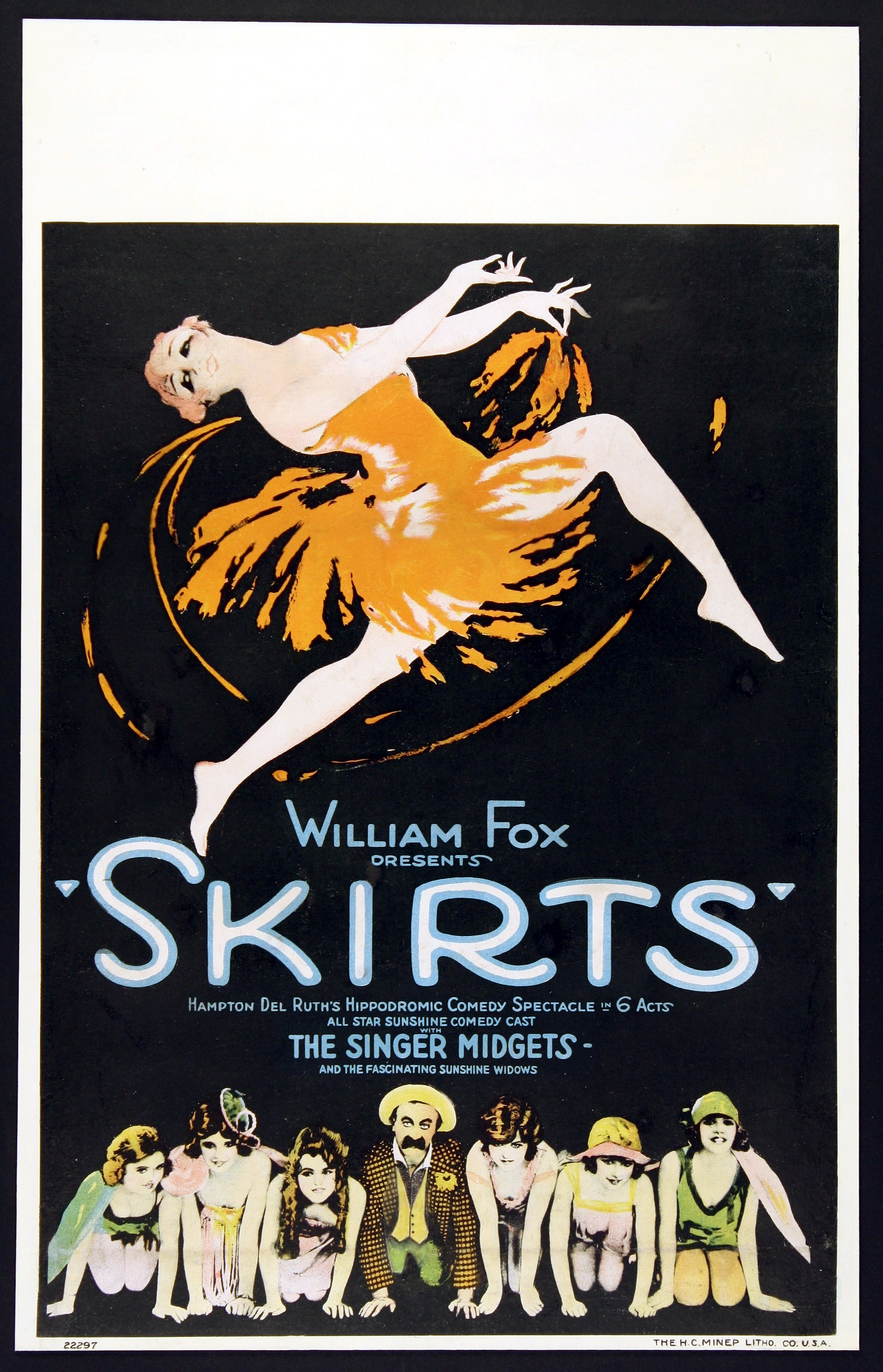 This is a poster for the 1921 film Skirts.